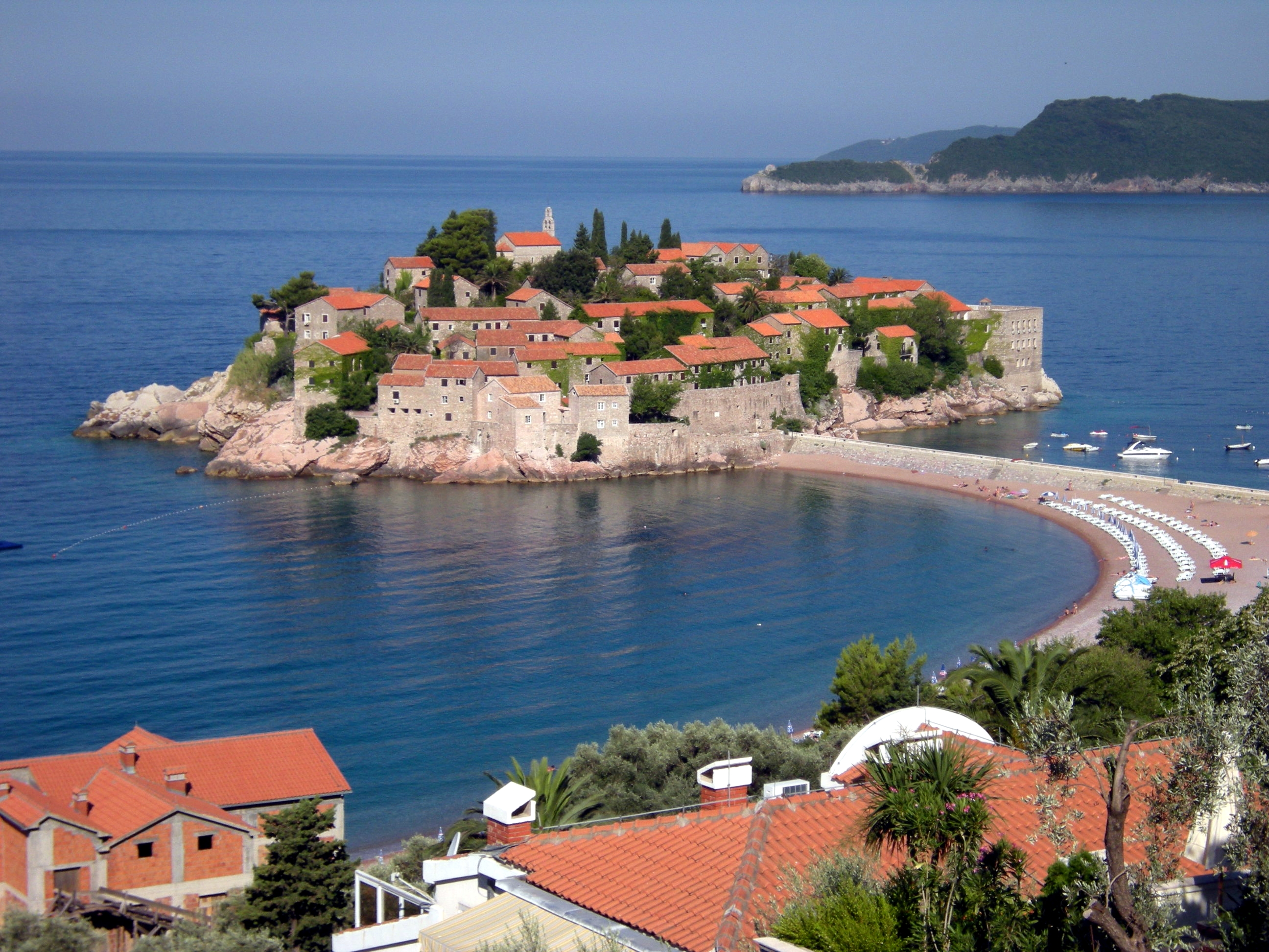 Sveti Stefan, Montenegro